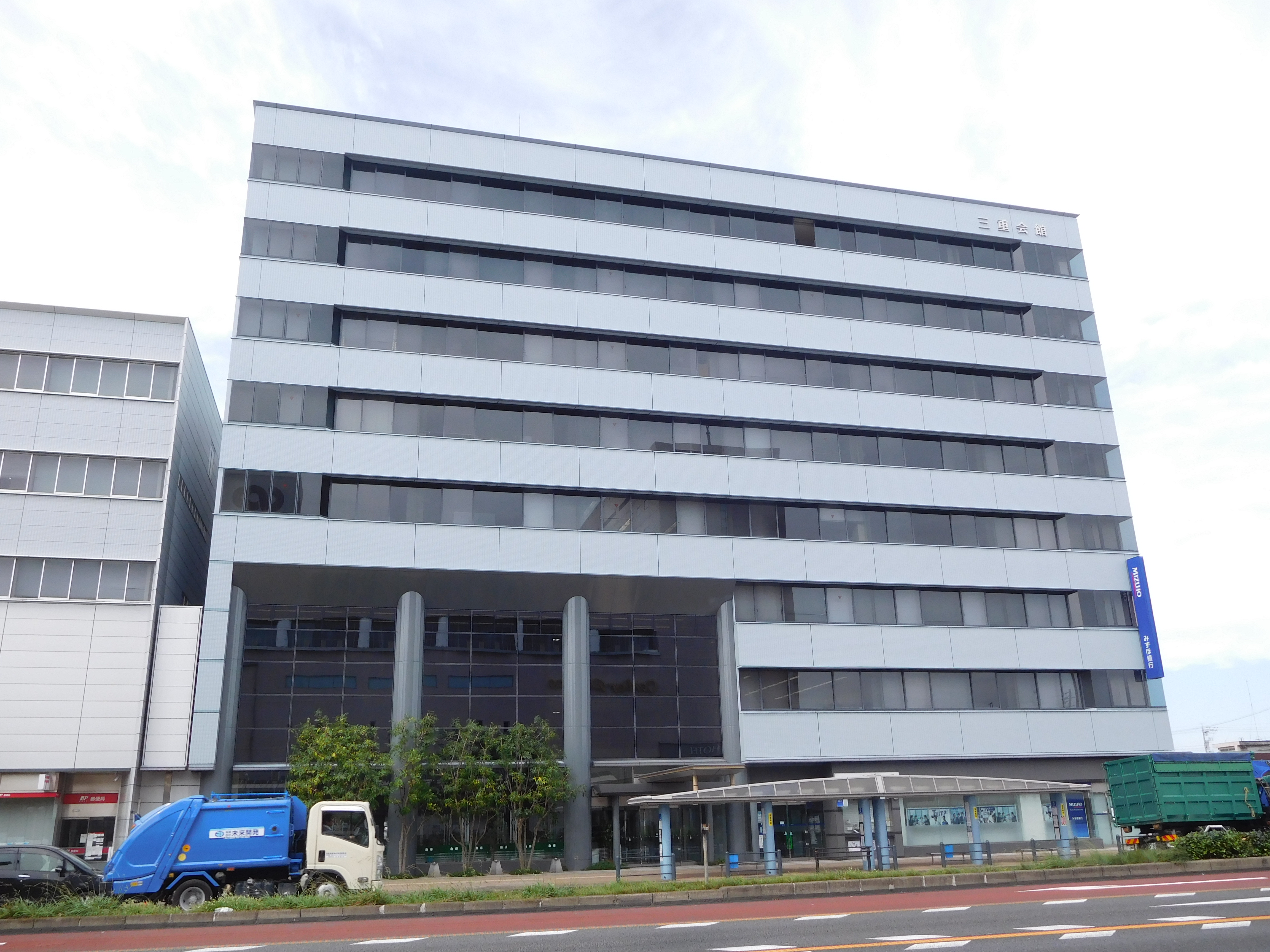 This is the Mie Kaikan in Tsu, Mie, Japan.